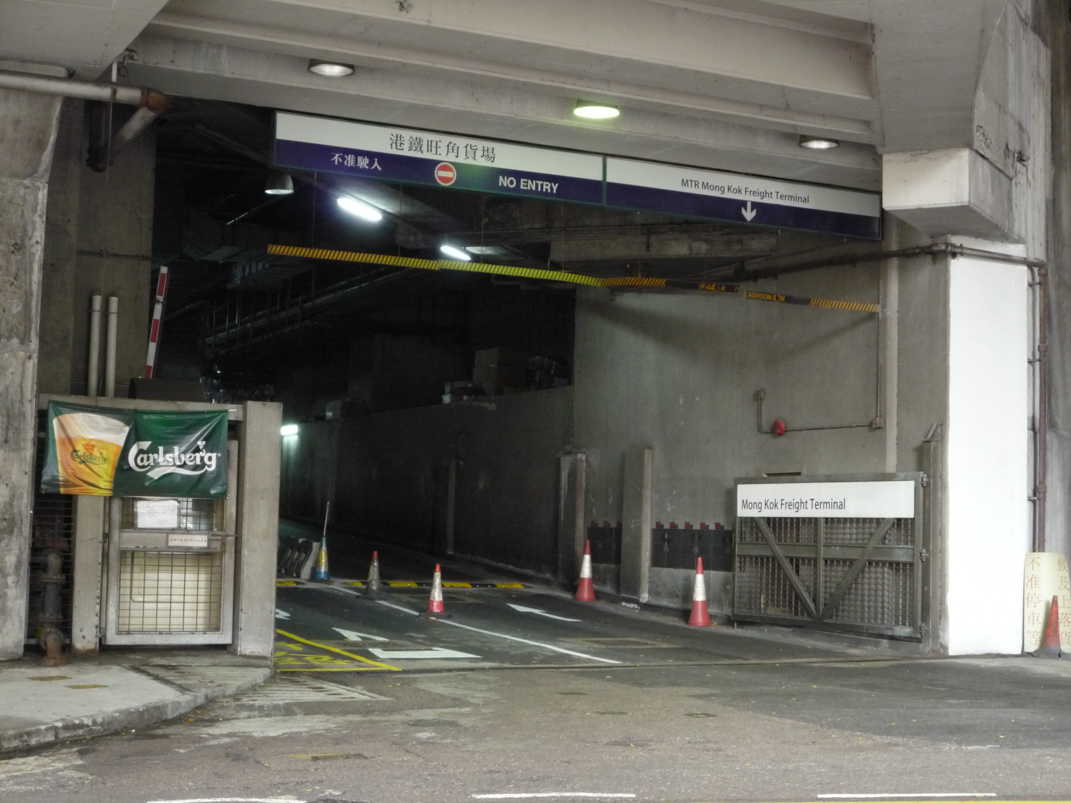 MTR Mong Kong Freight Terminal Entrance (Taken in Luen Wan Street)